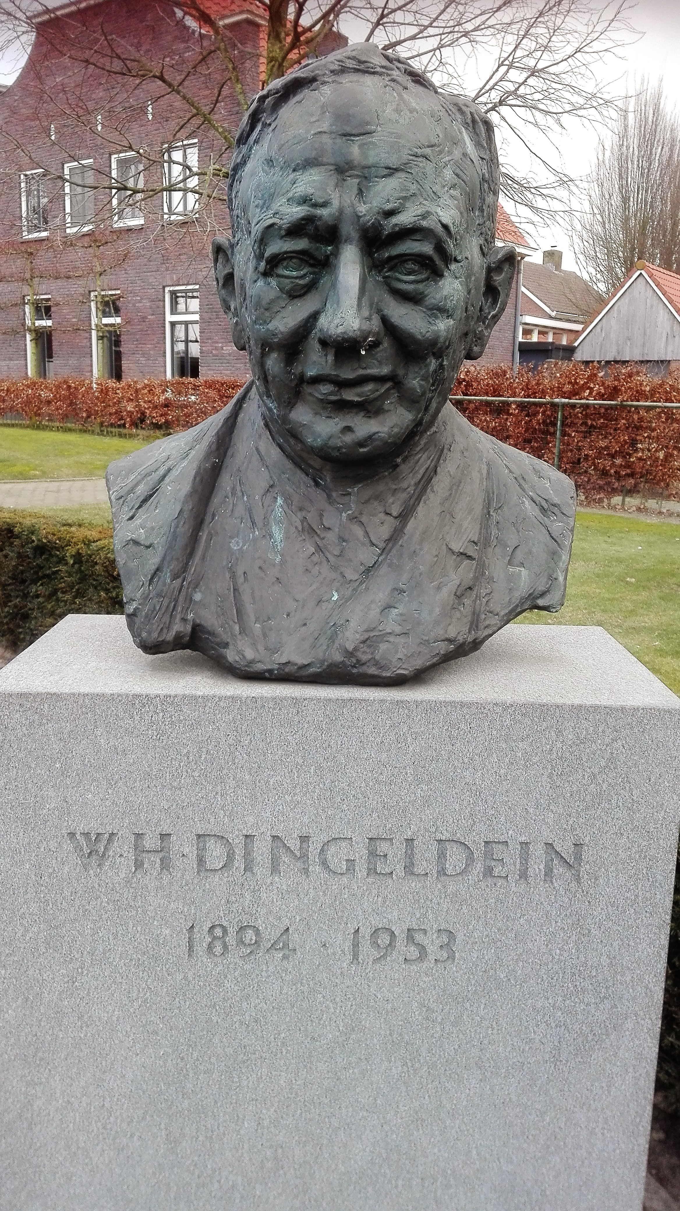 Monument W H Dingeldein in Denekamp